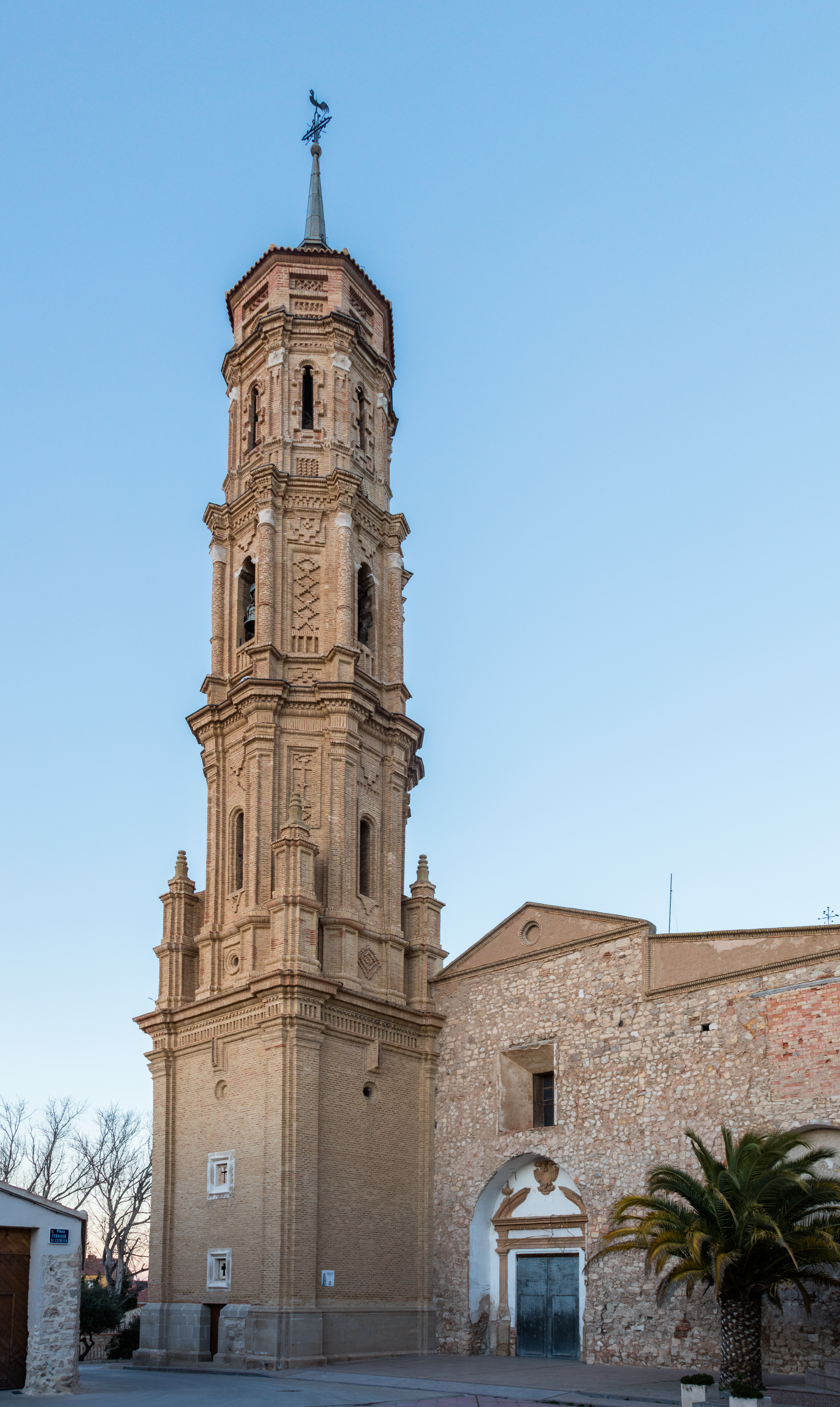 Church of St. Mary Magdalene, Lécera, Saragossa, Spain